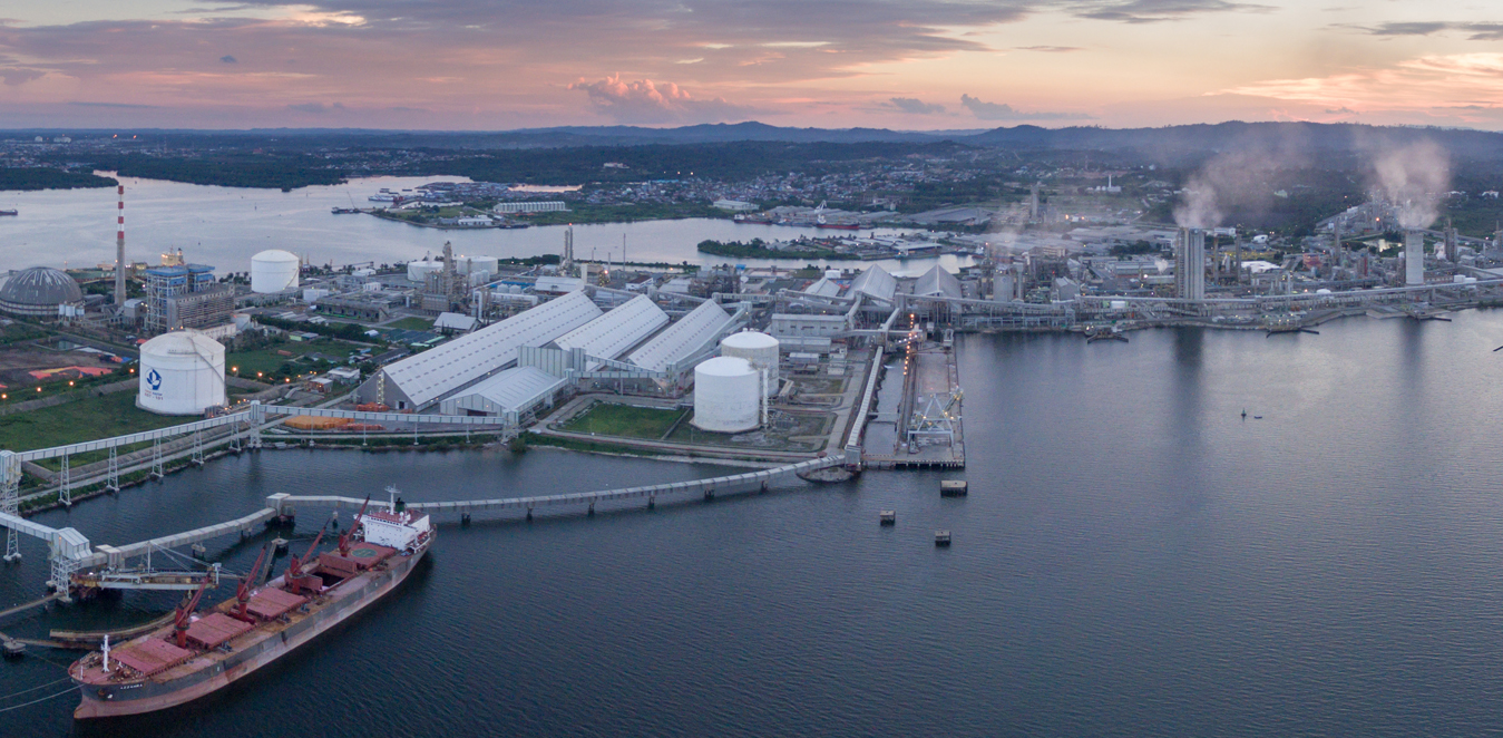 PKT Factory Complex Area